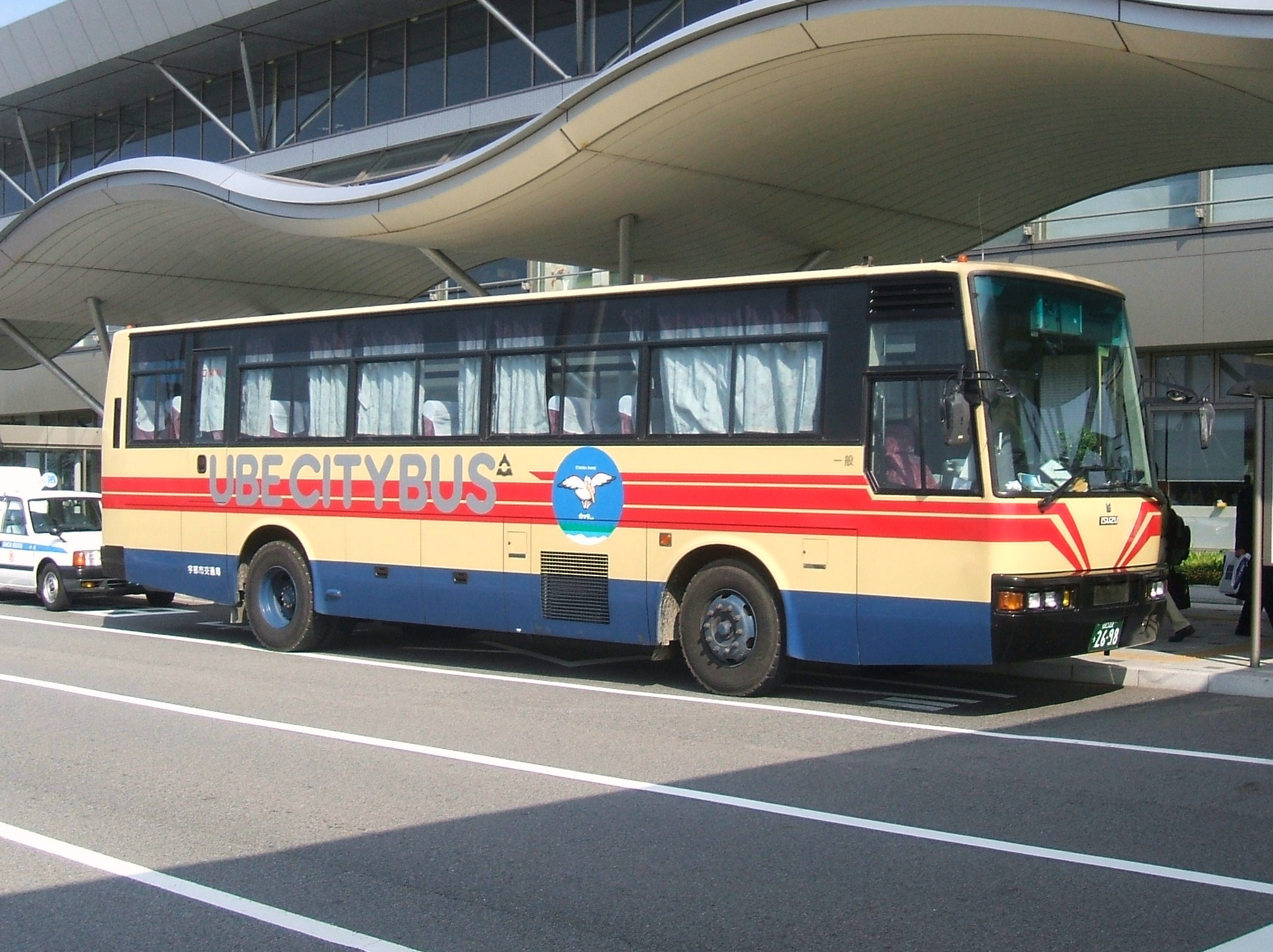 Ube City Bus@Yamaguchi-Ube Airport